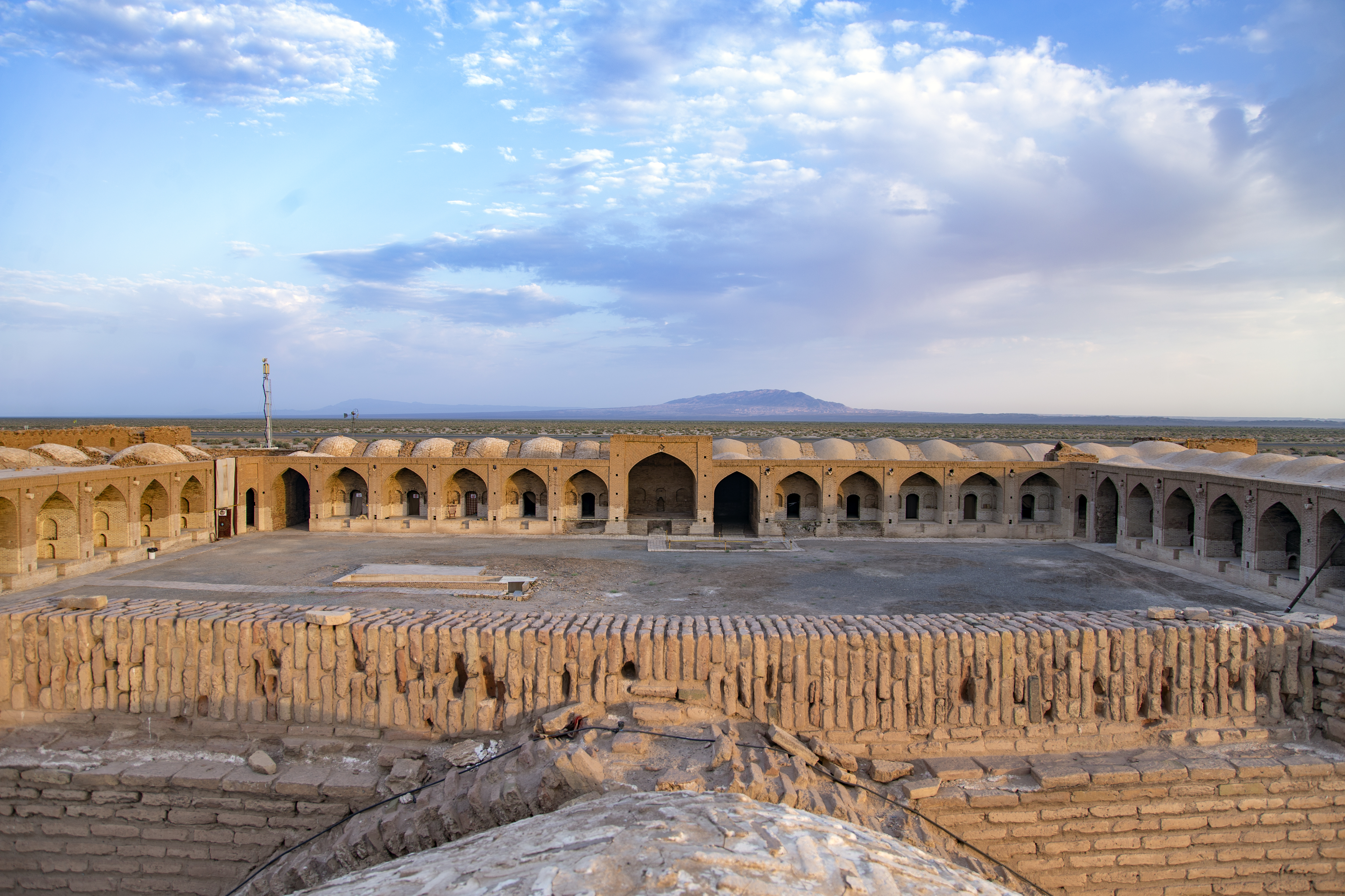 Deir-e Gachin Caravansarai is one of the greatest caravansarais of Iran which is located in the center of Kavir National Park. Its unique qualities is the reason it is called “Mother of Iranian Caravansarais”. It is located in the Central District of Qom County, 80 kilometers north-east of Qom (60 kilometers into Garmsar Freeway) and 35 kilometers south-west of Varamin. (Photo by: Mostafa Meraji, wiki loves monuments 2018)